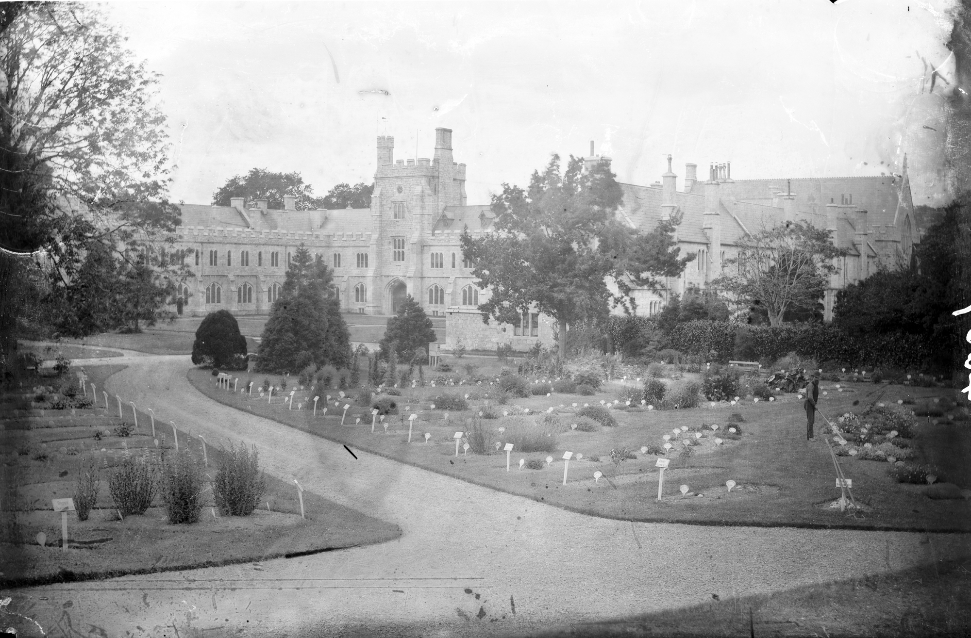 Title in our catalogue was "Unidentified". Thanks to Skink74 for identifying this lovely building as Queen's College, Cork which is now called University College Cork (UCC). And you should have a look at how beautiful this site was as depicted on the OSI Historic Maps (thank you Niall McAuley). Date: 1900?? NLI Ref.: L_CAB_04837